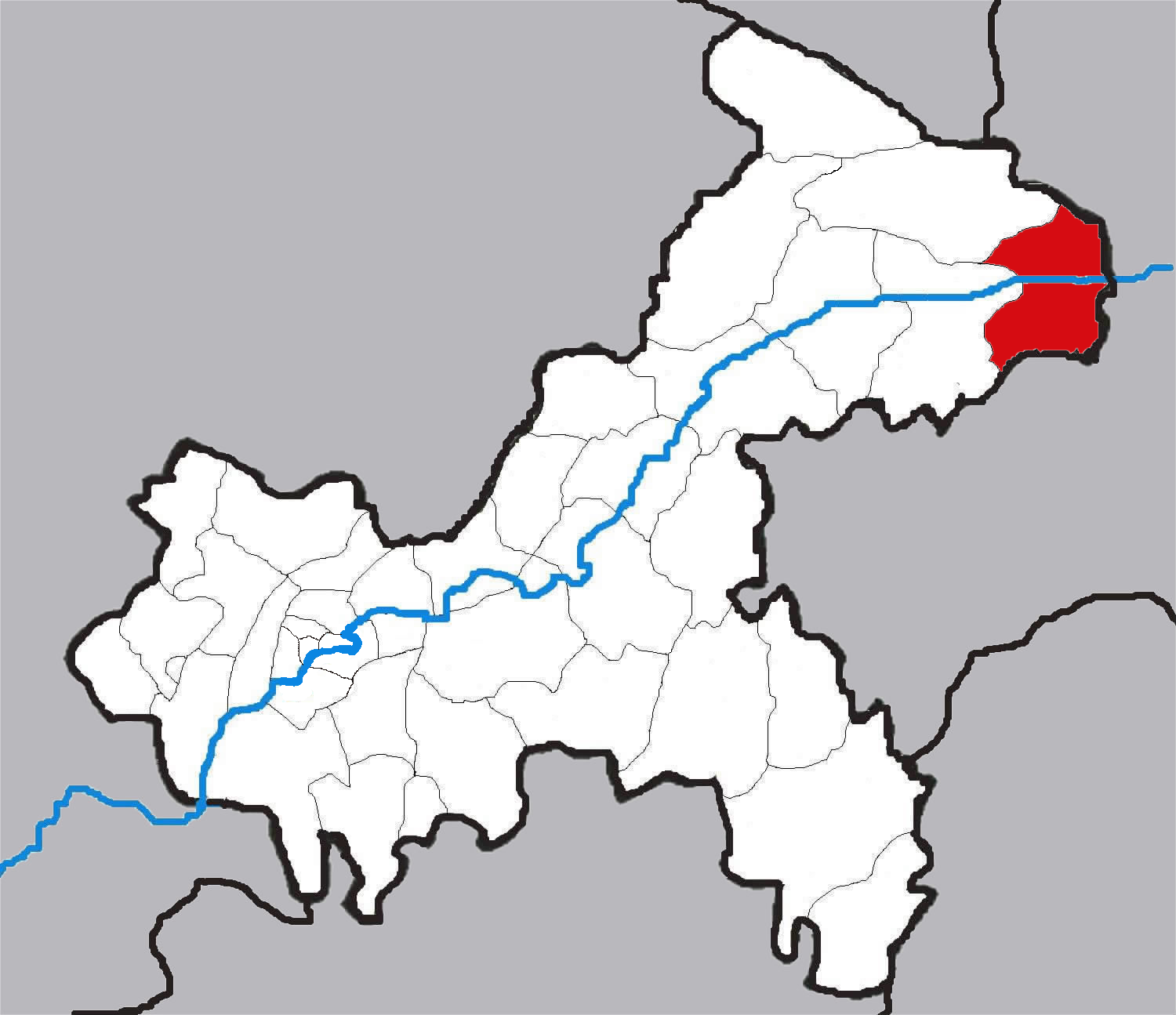 Administration maps of Chongqing, China